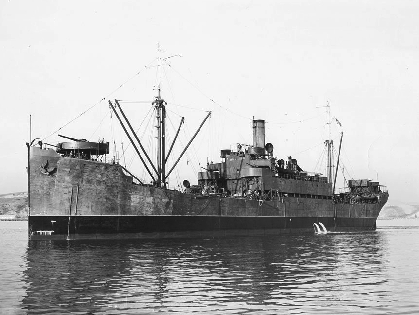 USS Boreas (AF-8) near the Mare Island Navy Yard, 10 October 1941. Shipyard modifications included splinter protection bulwarks around her 5"/51 guns.